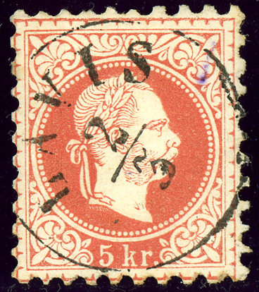 Austrian KK 5 kreuzer stamp, issue 1874, cancelled at LAVIS, South Tyrol (near Trento).